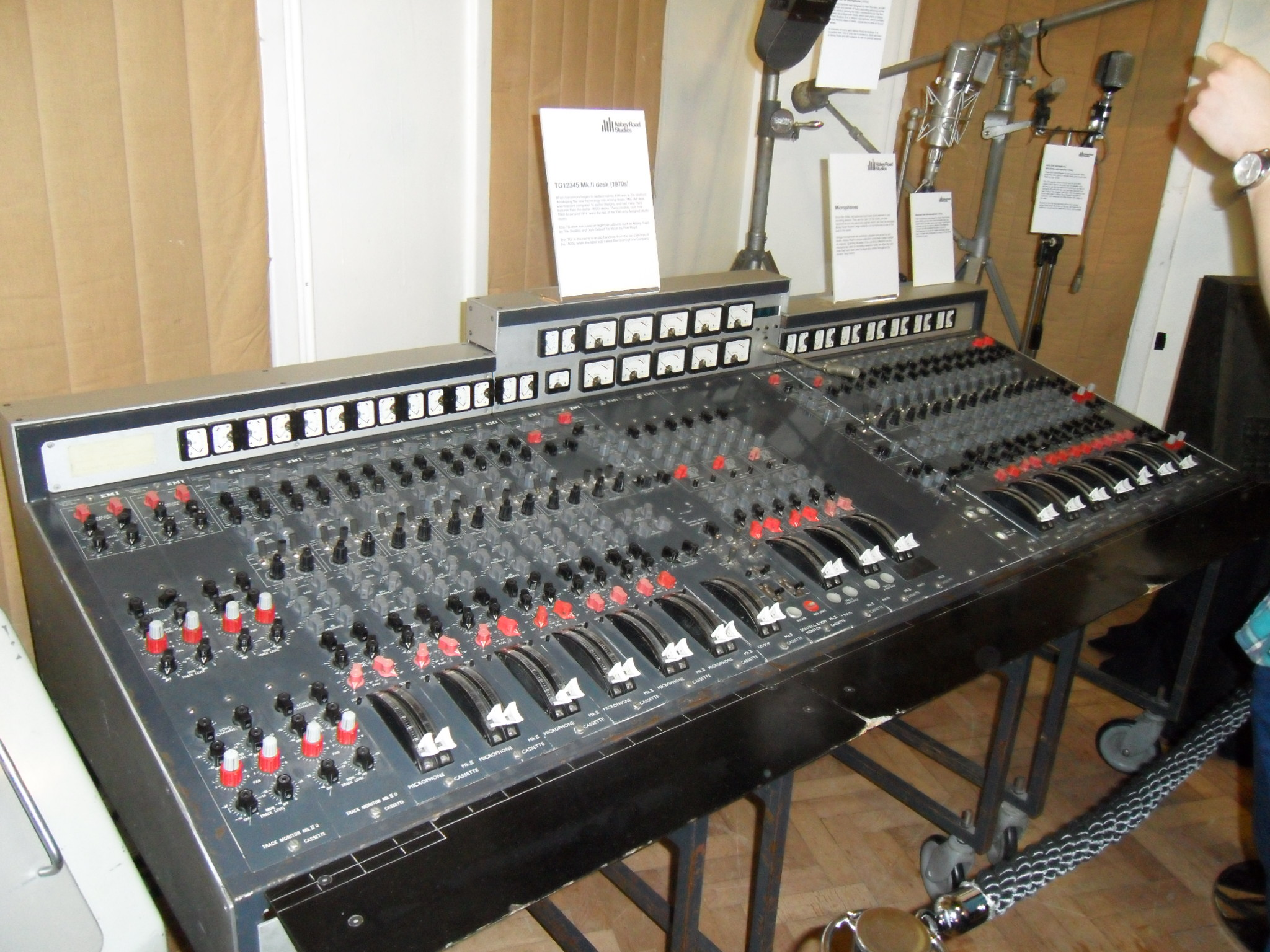 TG12345 Mk.II desk (1970s) When transistors began to replace valves, EMI was at the forefront, developing the new technology into mixing desks. This EMI desk was massive compared to earlier designs, and had many more features than the earlier REDD desks. These models, built from 1969 to around 1974, were the last of the EMI-only designed studio desks. The TG desk was used on legendary albums such as Abbey Road by The Beatles and Dark Side of the Moon by Pink Floyd. The 'TG' in the name is an old handover from the pre-EMI days of the 1920s, when the label was called The Gramophone Company. Microphones Since the 1930s, microphones have been a key element in any recording session. They are the 'ears' of the studio, as they transform sound into electronic signals which can then be recorded. Abbey Road Studios' large collection of microphone is one of the best in the world. Vintage microphones are extremely valuable and prized by any studio. Abbey Road's unique collection comprises a large number of originals, spanning decades. It is a working collection, as the microphones used on recording sessions today are often the very ones that have been used by legendary artists throughout the studios' long history. (quotes from the description) EMI RM-1B microphone (1930s) Neumann U47/48 AKG D... AKG D... ...